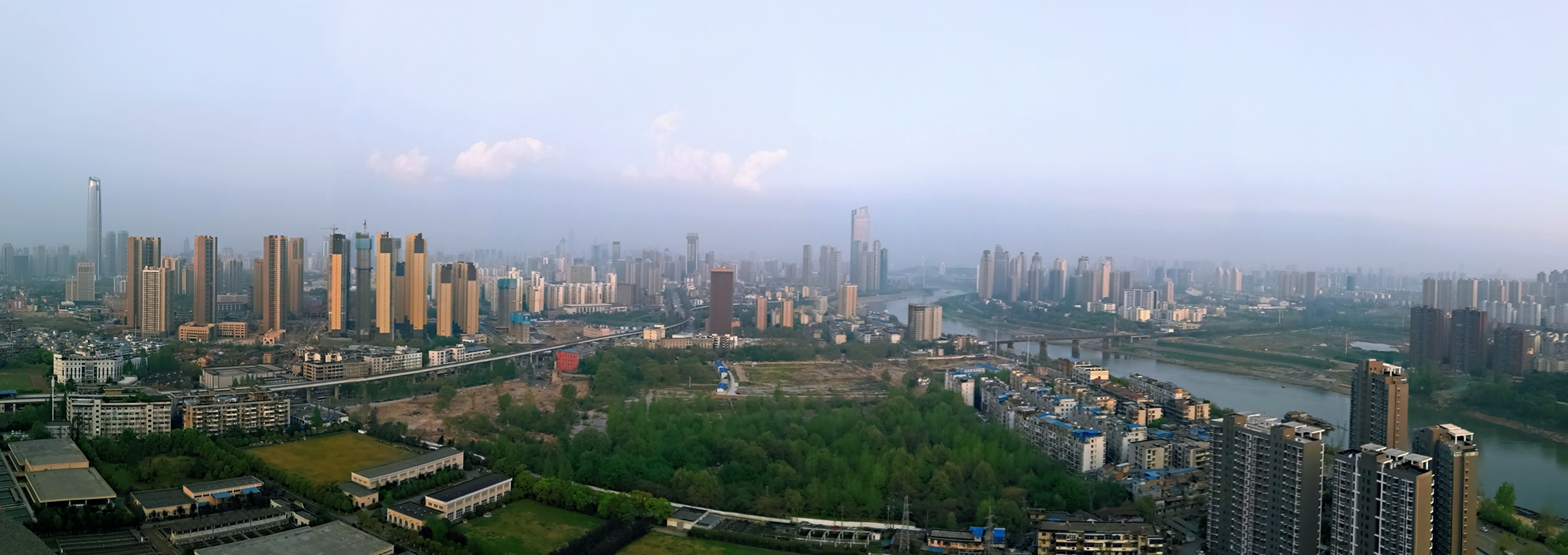 Overlook of East Qiaokou From Zongguan